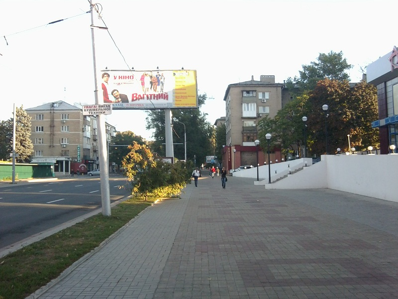 Universytets'ka street